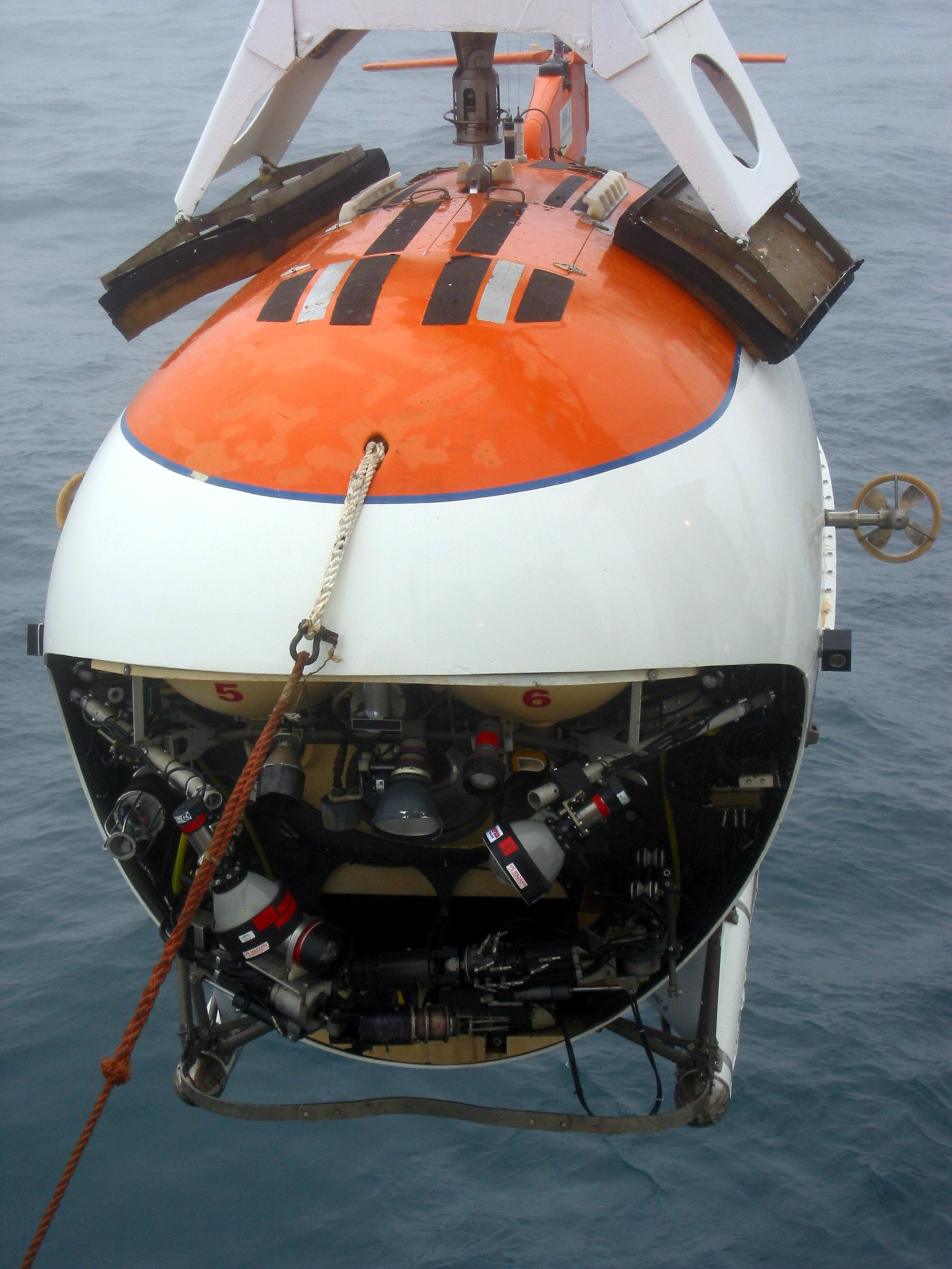 The Mir submersible is hoisted into the water via a cable connected to the ship’s winch system. This front view shows the versatile manipulator arms and the huge viewing port.